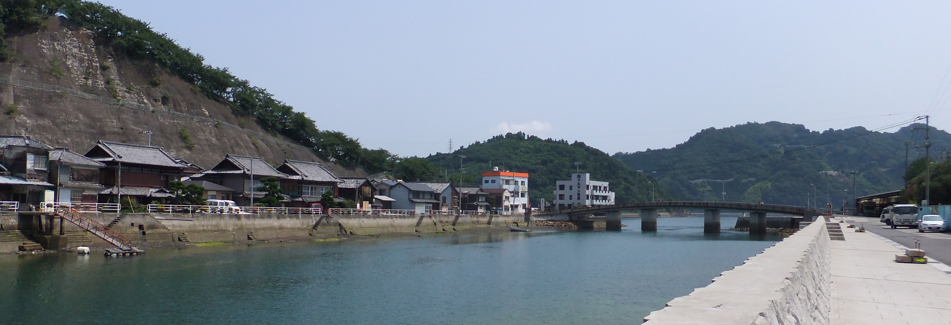 The town Ocho on Osaki-shimojima in Hiroshima Prefecture, Japan. Inspiration for the film A Letter to Momo.